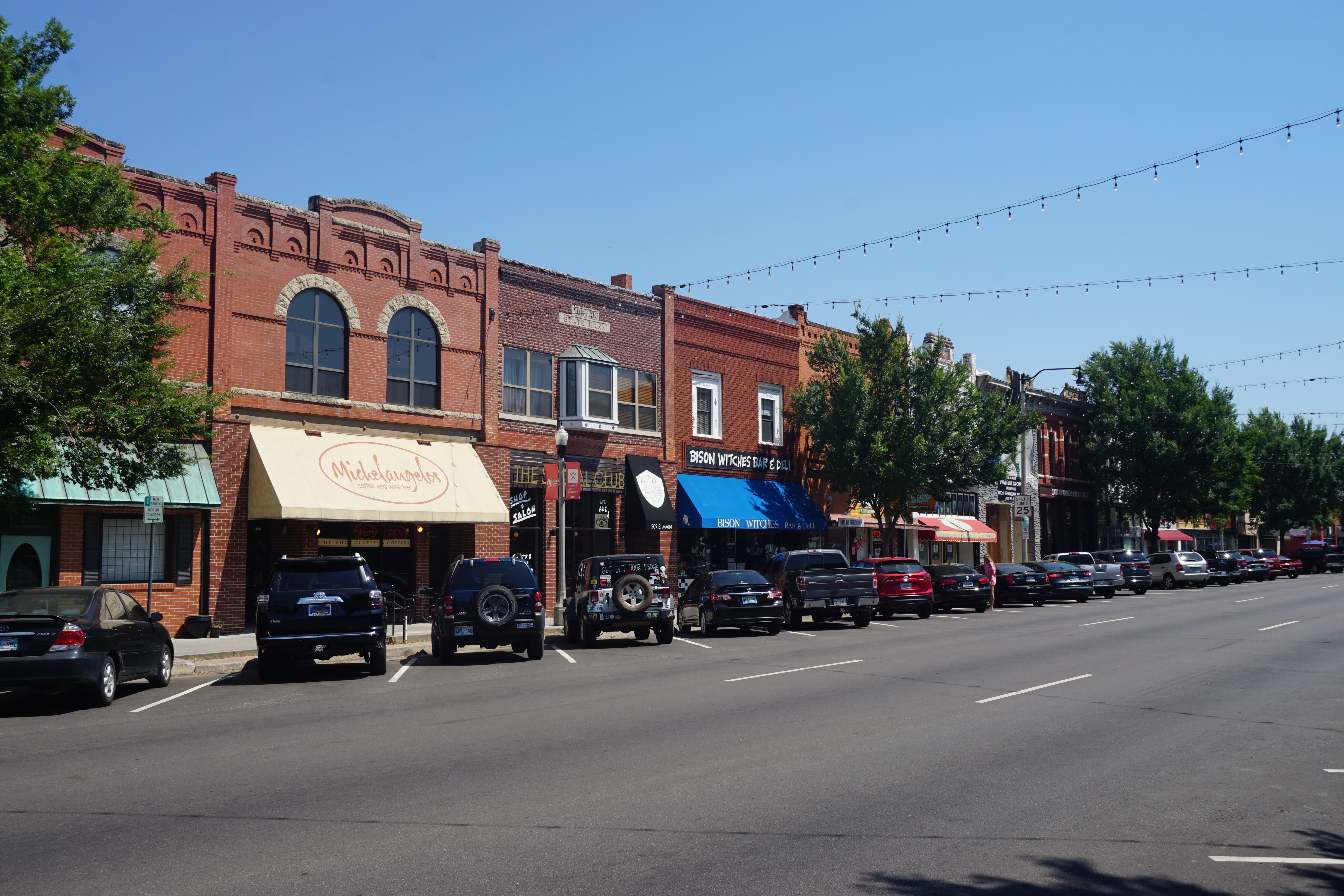 East Main Street in Norman, Oklahoma (United States).